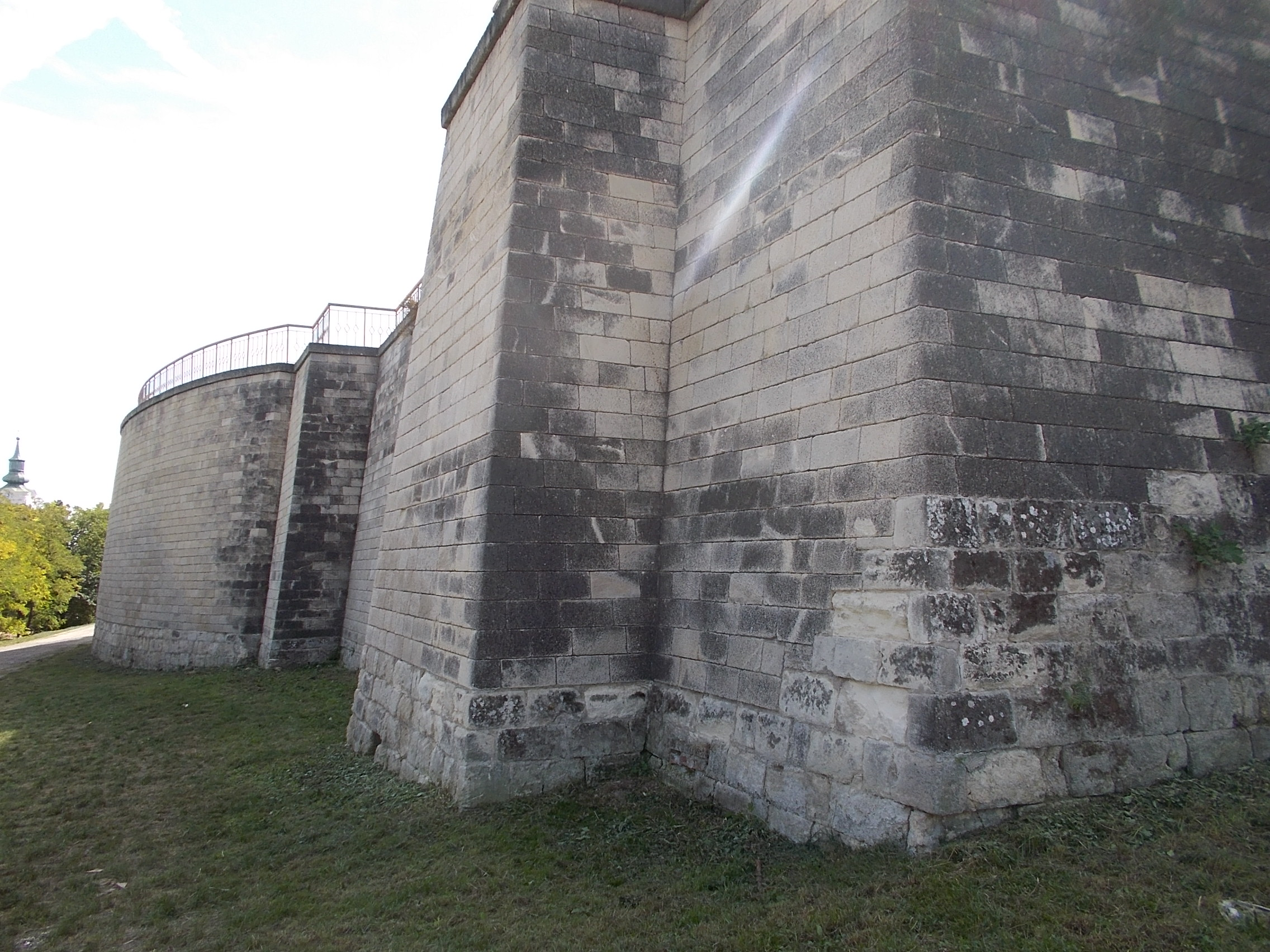 Baroque castle buttress at the Szapáry Castle. Listed ID 10968. - Kastély Street, Ófalu, Érd, Pest County, Hungary.